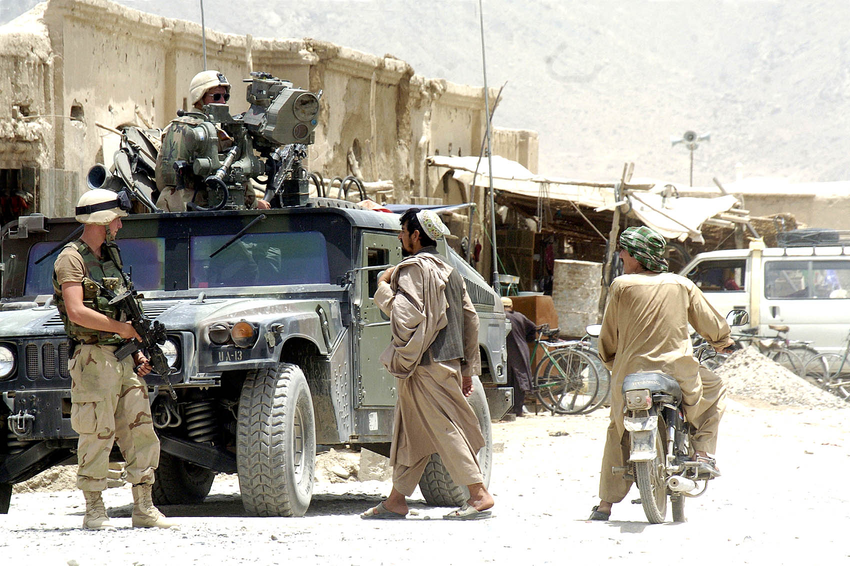 Soldiers from the 3rd Squadron 4th Cavalry Regiment pull security alongside a road in a small city in the Panjwayi district July 2. (SSG Twana Atkinson-CJTF-76 Public Affairs Office)